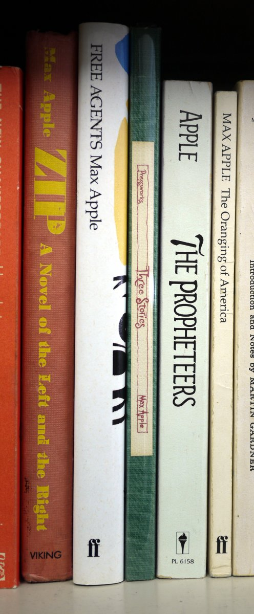 Some books by Max Apple: Zip; Free Agents; Three Stories; The Propheteers; The Oranging of America